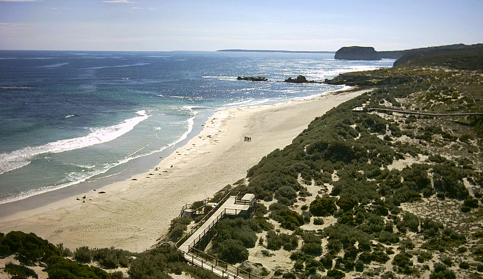 Seal Bay Conservation Park from eastern lookout